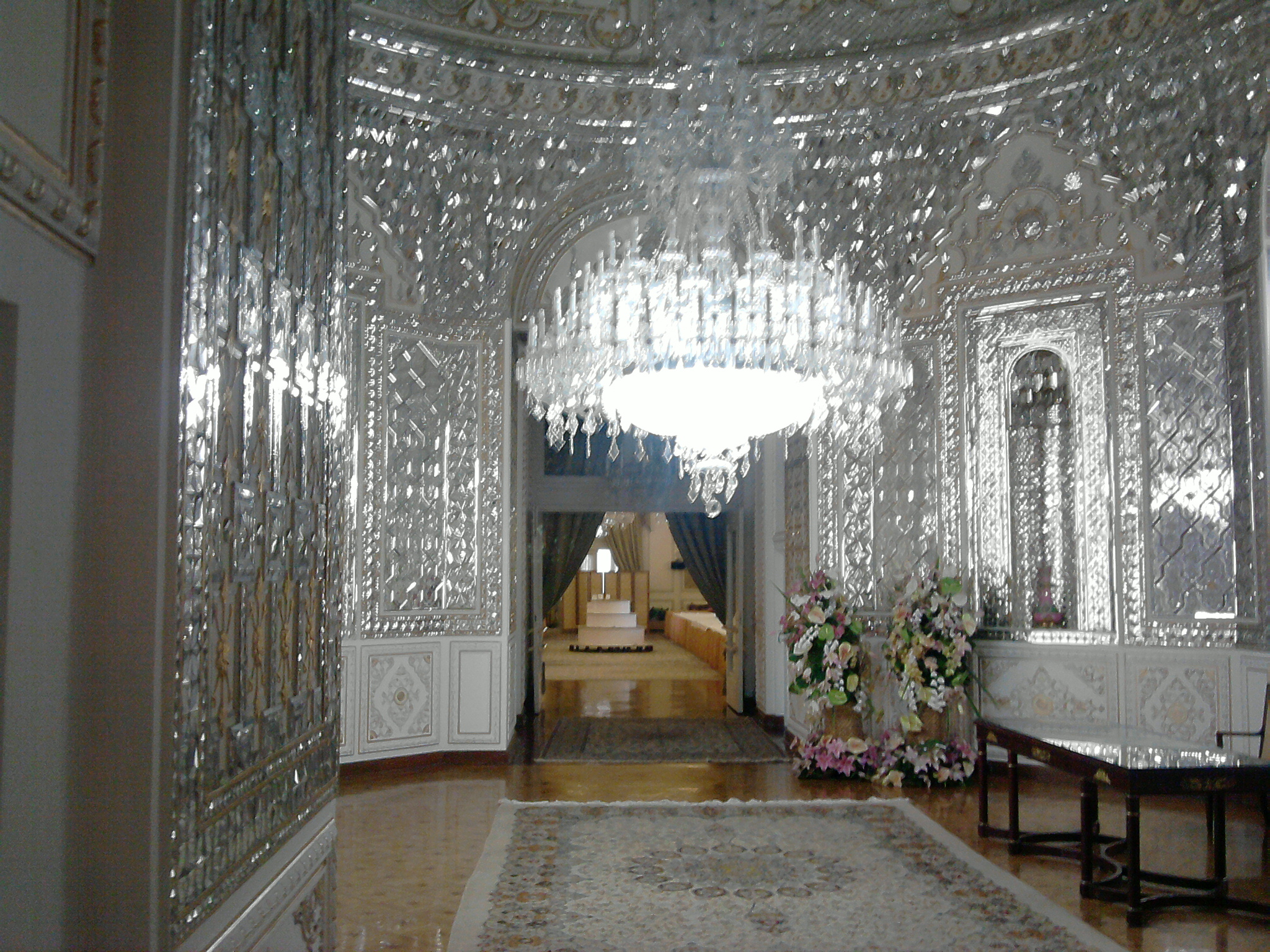 protocol hal of ministry of FM.IRAN( 1935)